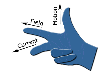 A drawing of a right hand illustrating Fleming's right hand rule